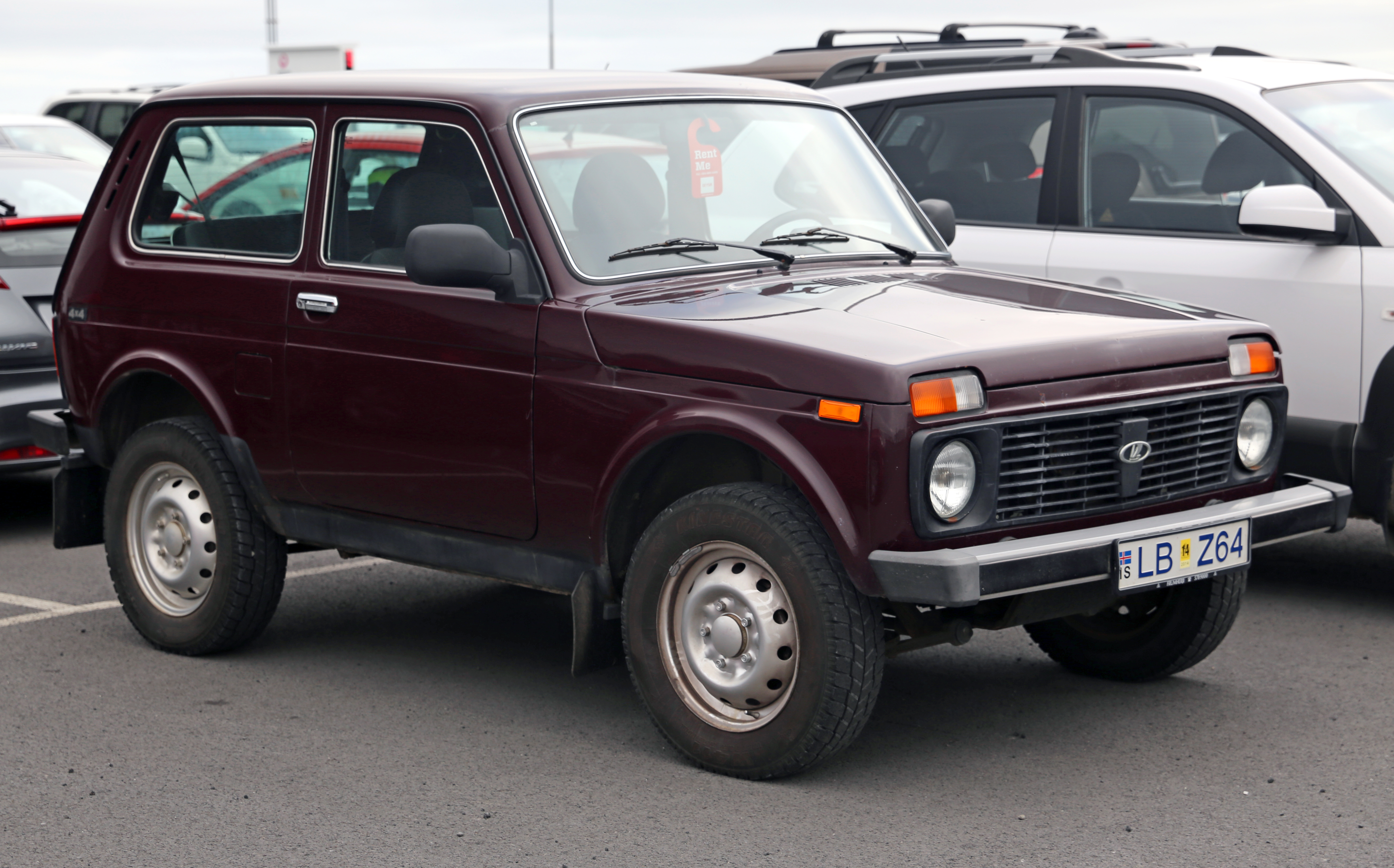 2010 Lada Niva 1.7 (VAZ 21214) in a rental car lot at Keflavik airport.